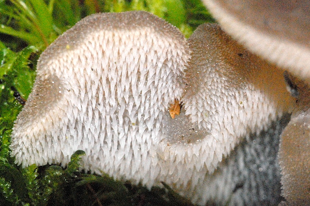 Pseudohydnum gelatinosum from Commanster, Belgium. The determination of the species shown in this picture has been verified.